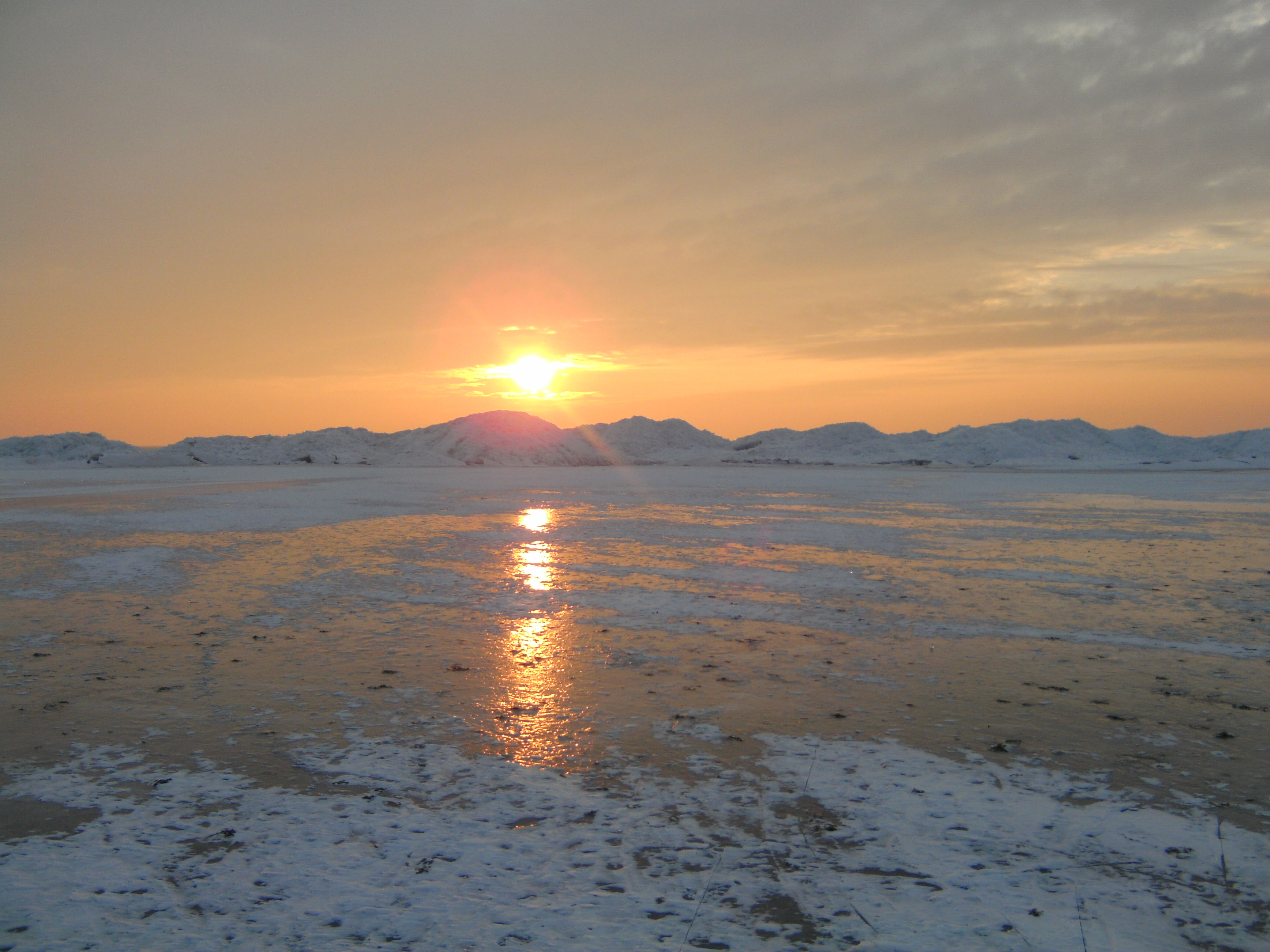 beautiful icemoantains